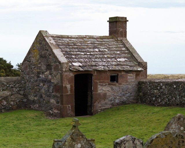 Watch House at Kirkside Cemetery, St. Cyrus This building is quite well preserved. Apparently it was used by watchers to guard against grave-robbers